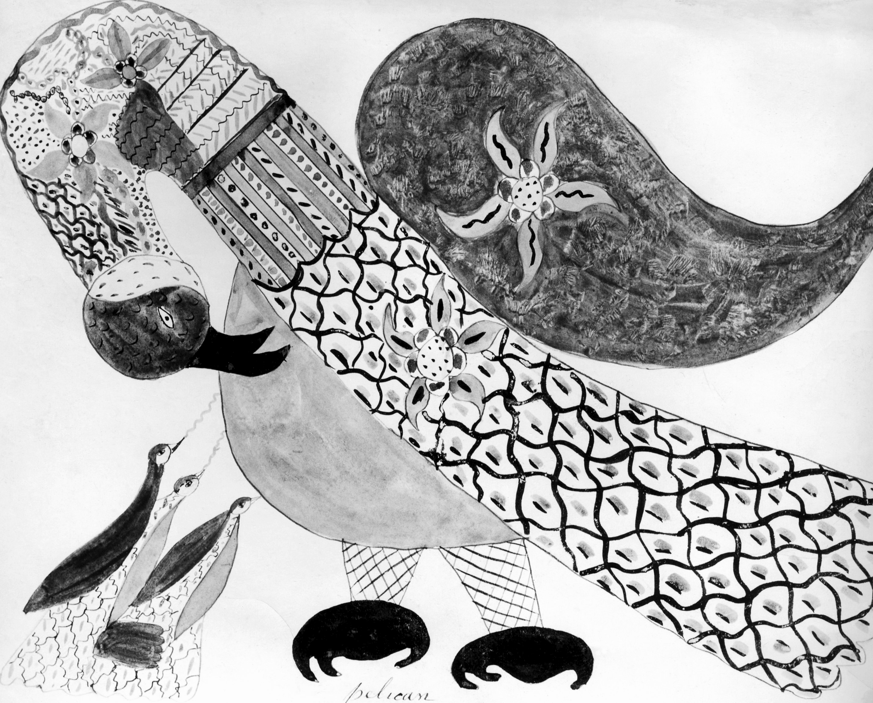 Mary Ann Willson, Pelican, ca. 1825. Watercolor, 12 7/8 x 16 in. Rhode Island School of Design, Museum of Art, Providence